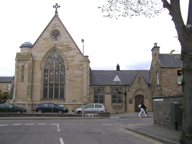 St Sylvester's RC Church, Elgin Pictured looking from Duff Avenue